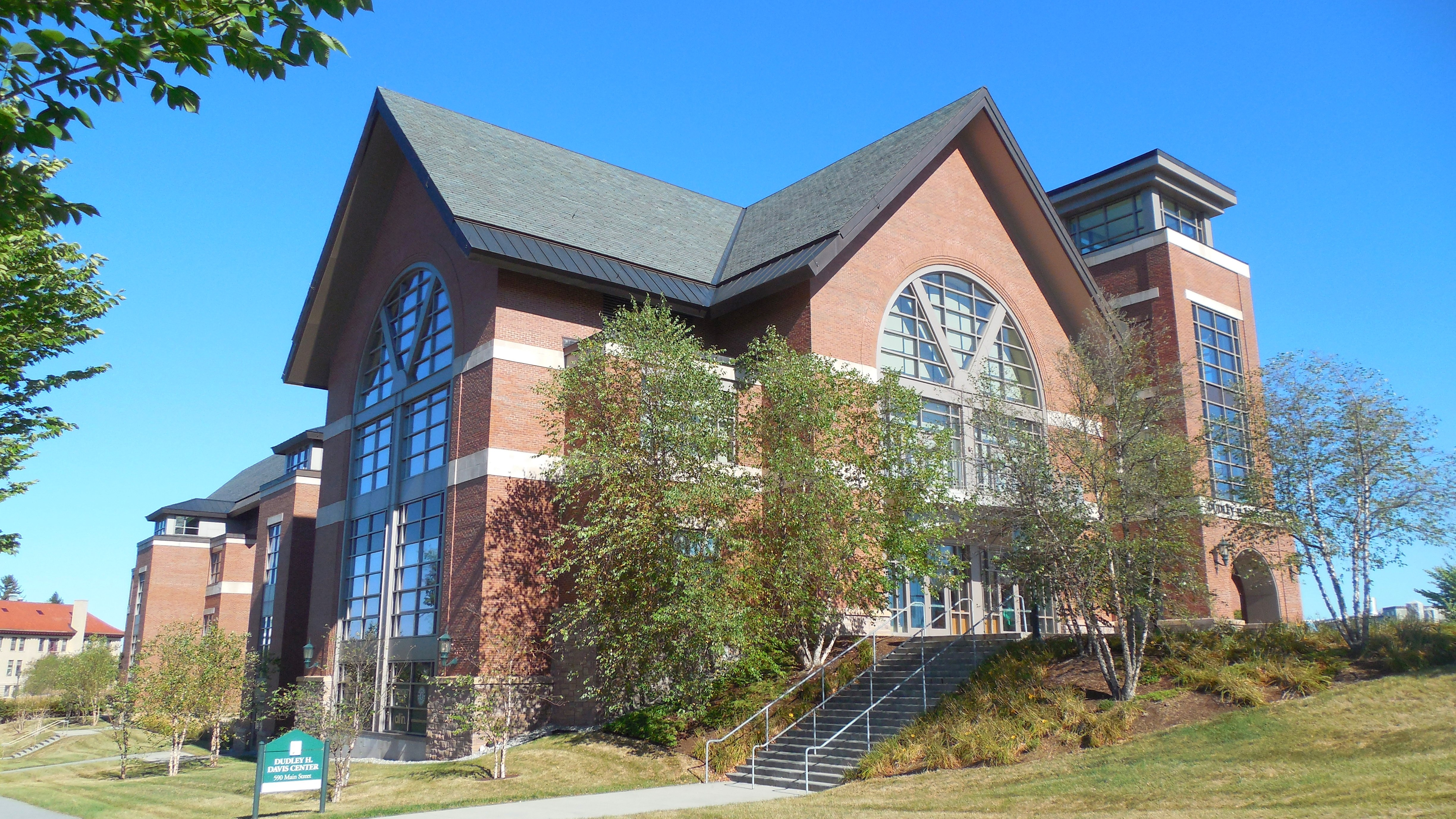 Dudley H. Davis Center at the University of Vermont (AM view looking northwest), 2016